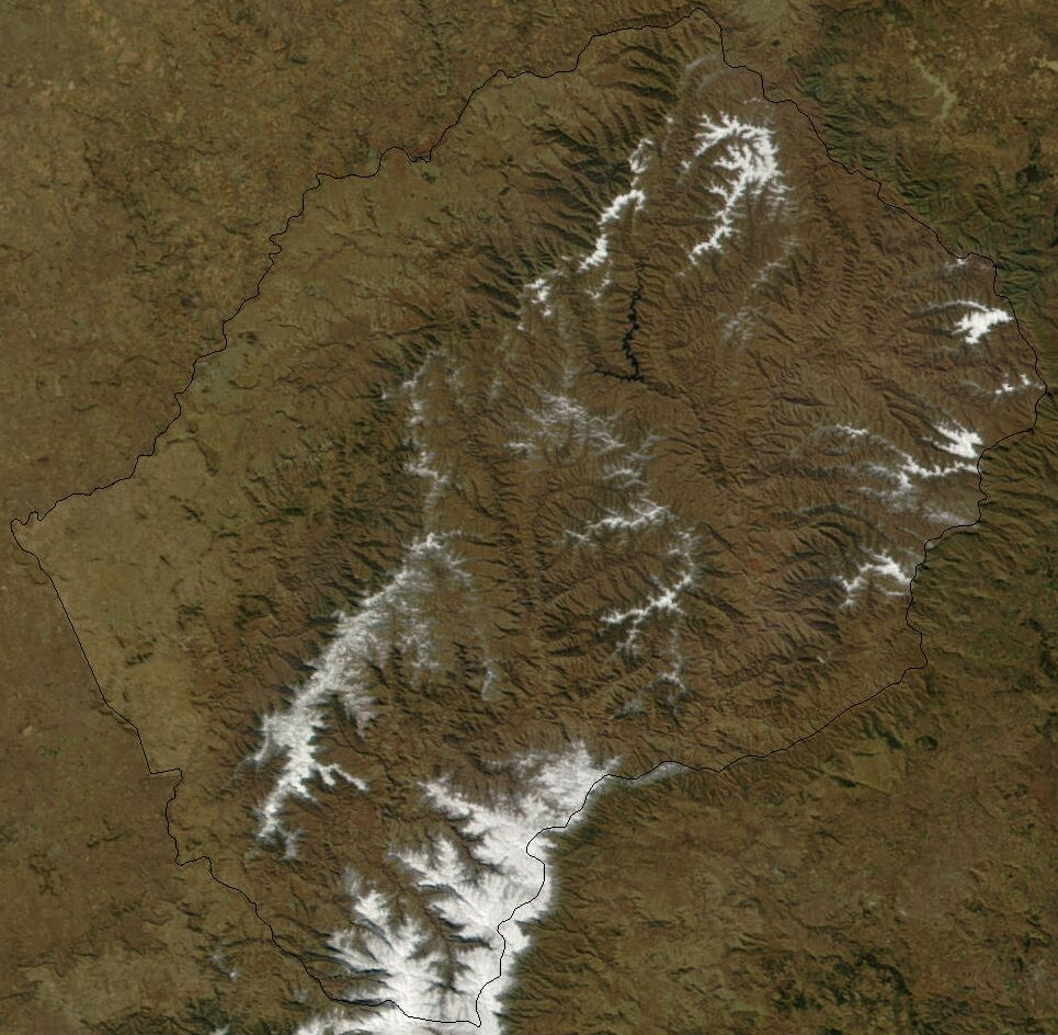 Satellite image of Lesotho in May 2002.